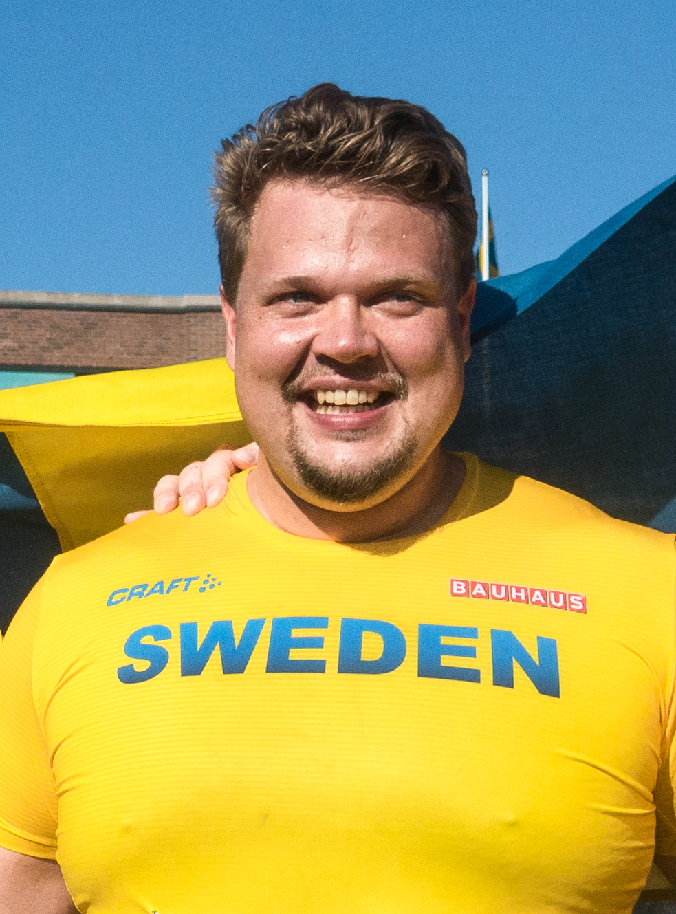 World champion, discus throw, Daniel Ståhl in 2019.